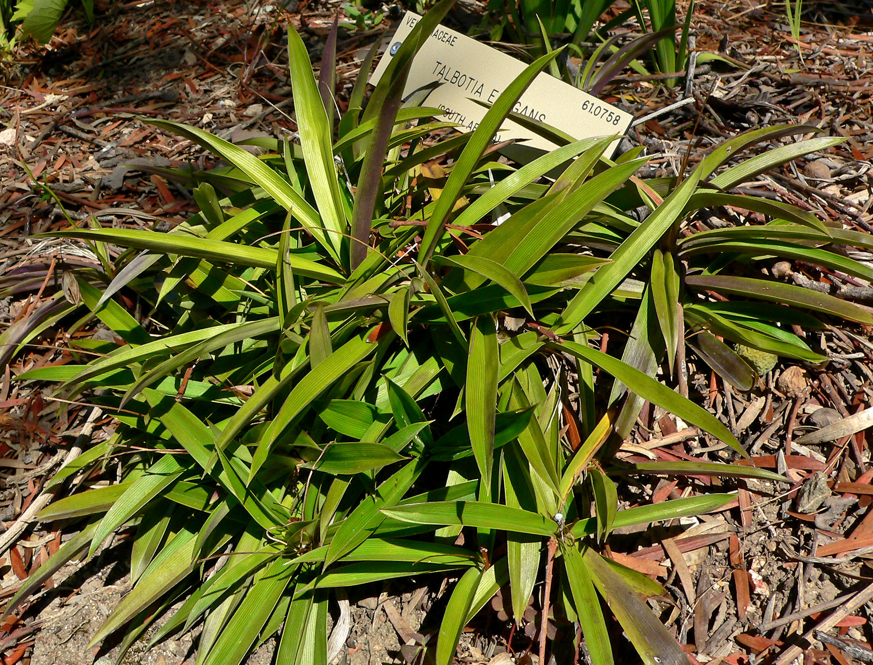 Talbotia elegans at the University of California Botanical Garden, Berkeley, California